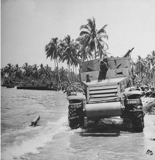 M3 75mm GMC in the surf on Bougainville, Solomon Islands. November 1943.